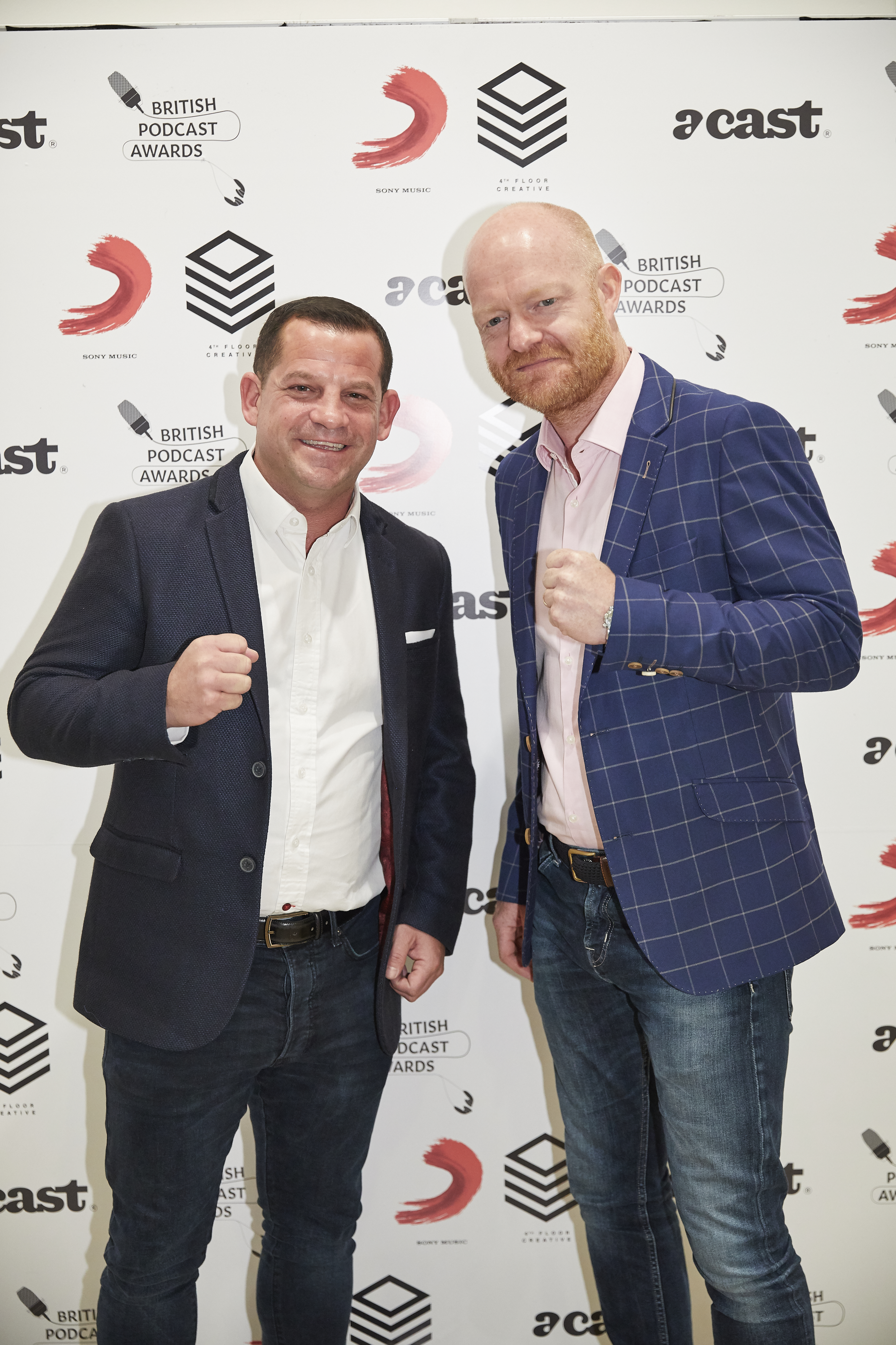 Jake Wood and Spencer Oliver